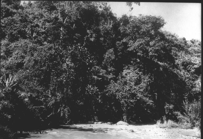 Photograph. Citarum river